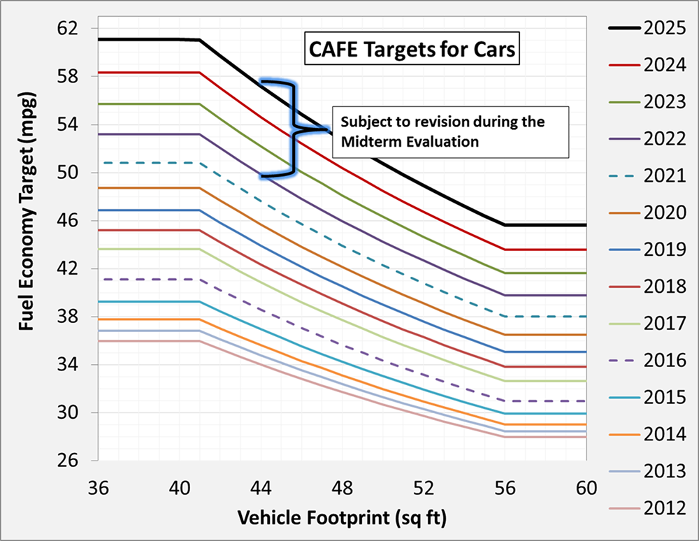 2012 to 2025 CAFE targets for cars undergoing mid-term evaluation